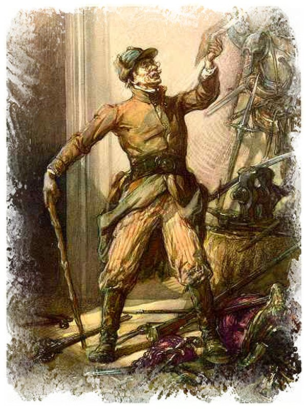 Illustration of Pan Tadeusz, Book 6